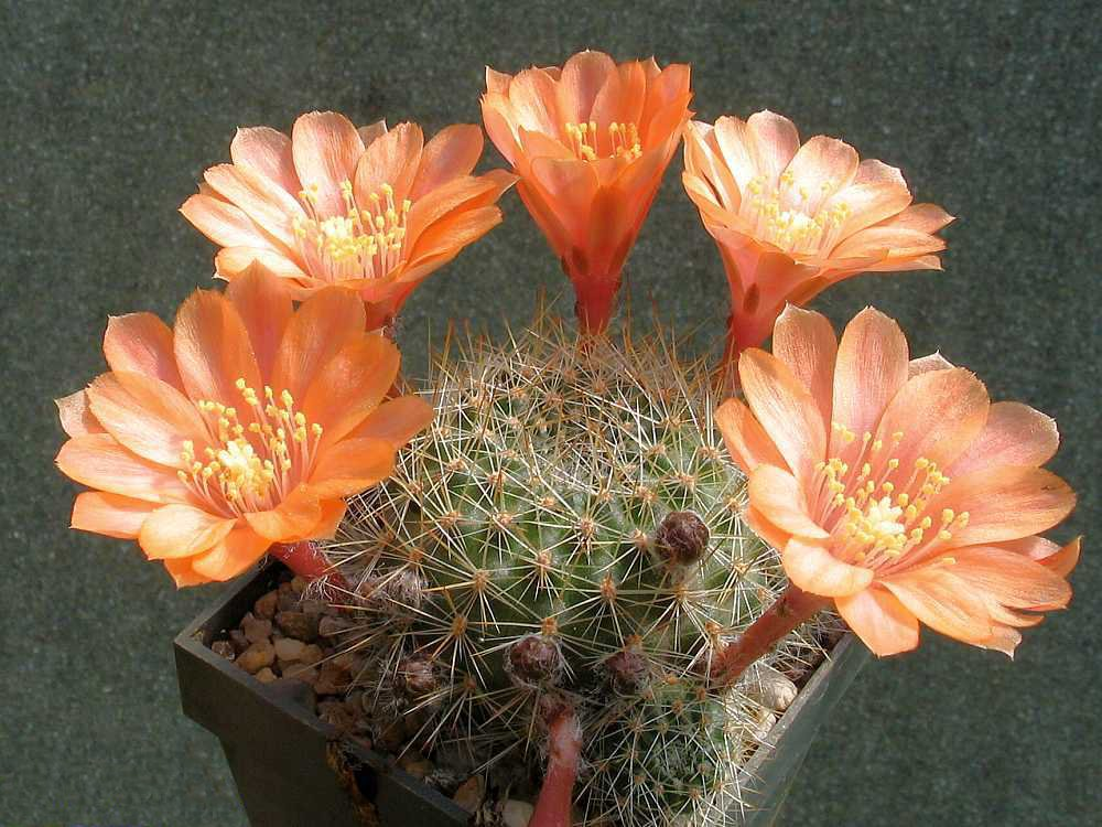 Rebutia deminuta (Rebutia buiningiana WR511) - cultivated plant (seed marked WR511) from own collection.